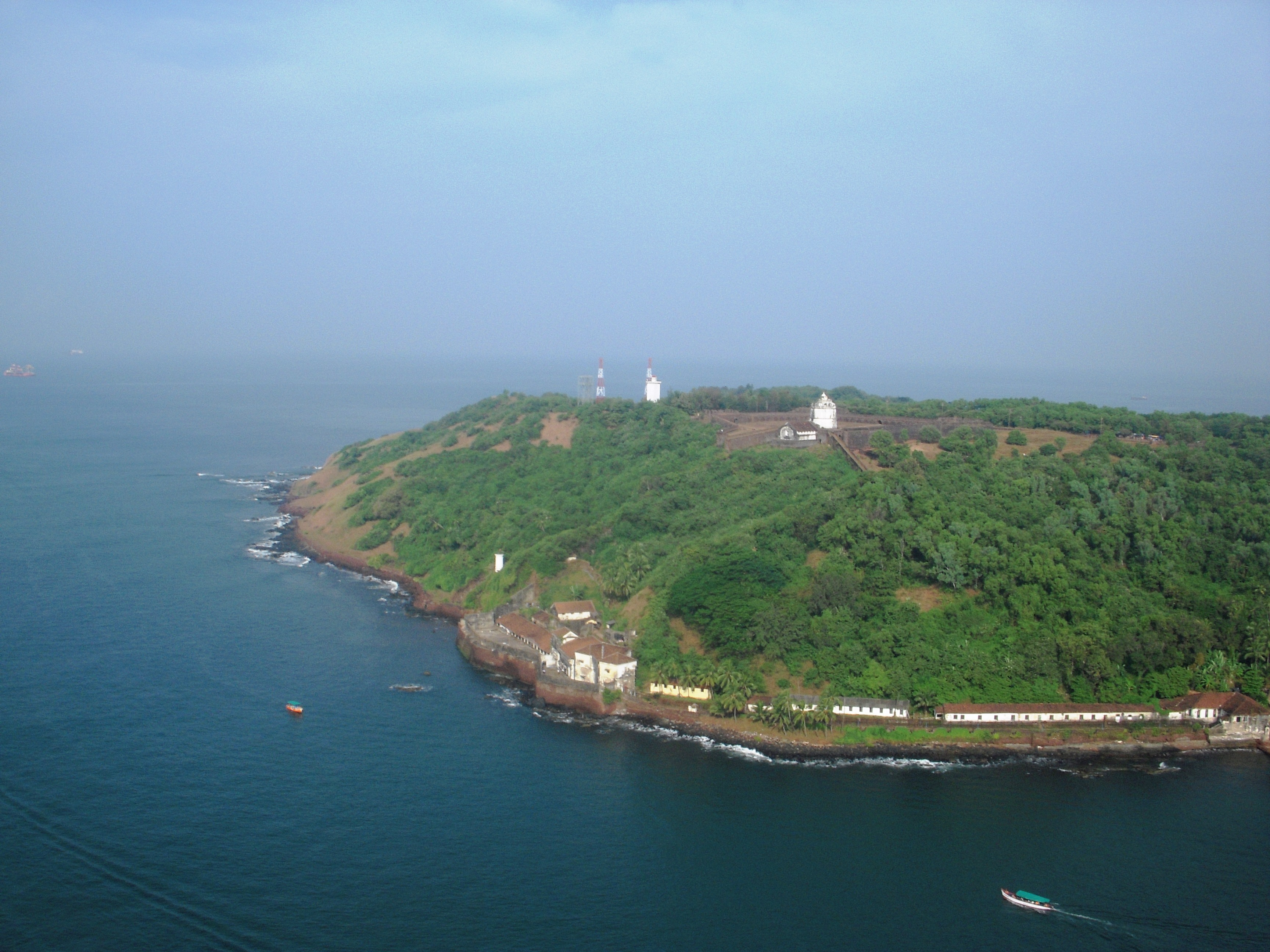 Fortification Wall of Auguda Fortress(Lower)